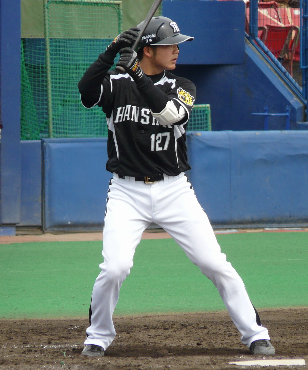 HT-Masaki-Anada20120322